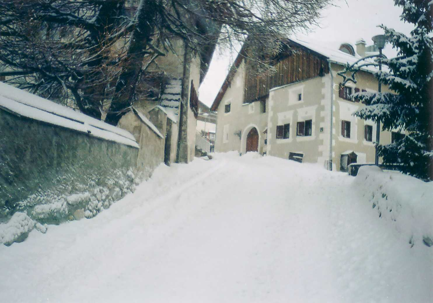 Madulain in winter 2005 (3)